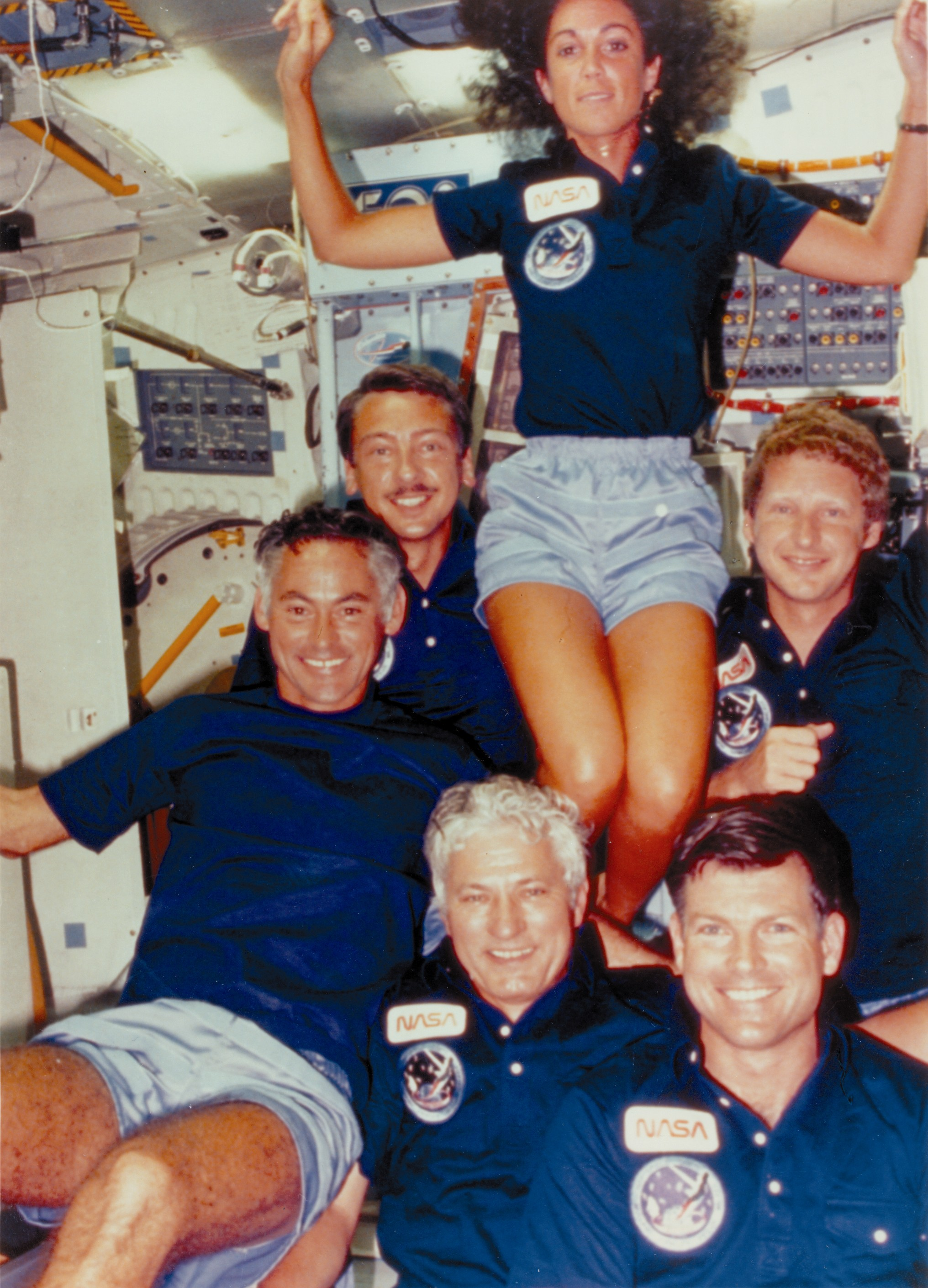 Crewmembers of NASA's 41-D mission take a group shot displaying their fun moments in space aboard the orbiter Discovery. Crewmembers are (counter-clockwise from center) crew commander Henry W. Hartsfield Jr., pilot Michael L. Coats, mission specialist Steven A. Hawley, mission specialist Judith A. Resnik, payload specialist Charles D. Walker, and mission specialist Richard M. Mullane. Dr. Judith Resnik is shown enjoying the weightlessness of space during her first mission. Born on April 5, 1949 in Akron, Ohio, she received a Bachelor of Science degree in Electrical Engineering from Carnegie-Mellon University in 1970, and a Doctorate in Electrical Engineering from University of Maryland in 1977. Dr. Resnik joined NASA in 1978 as a senior systems engineer in product development with Xerox Corporation at El Segundo, California. NASA later selected her as an astronaut candidate in January 1978; she completed a 1-year training and evaluation period in August 1979. Dr. Resnik died on January 28, 1986 on her second mission, during the failed launch of Challenger STS-51 L.